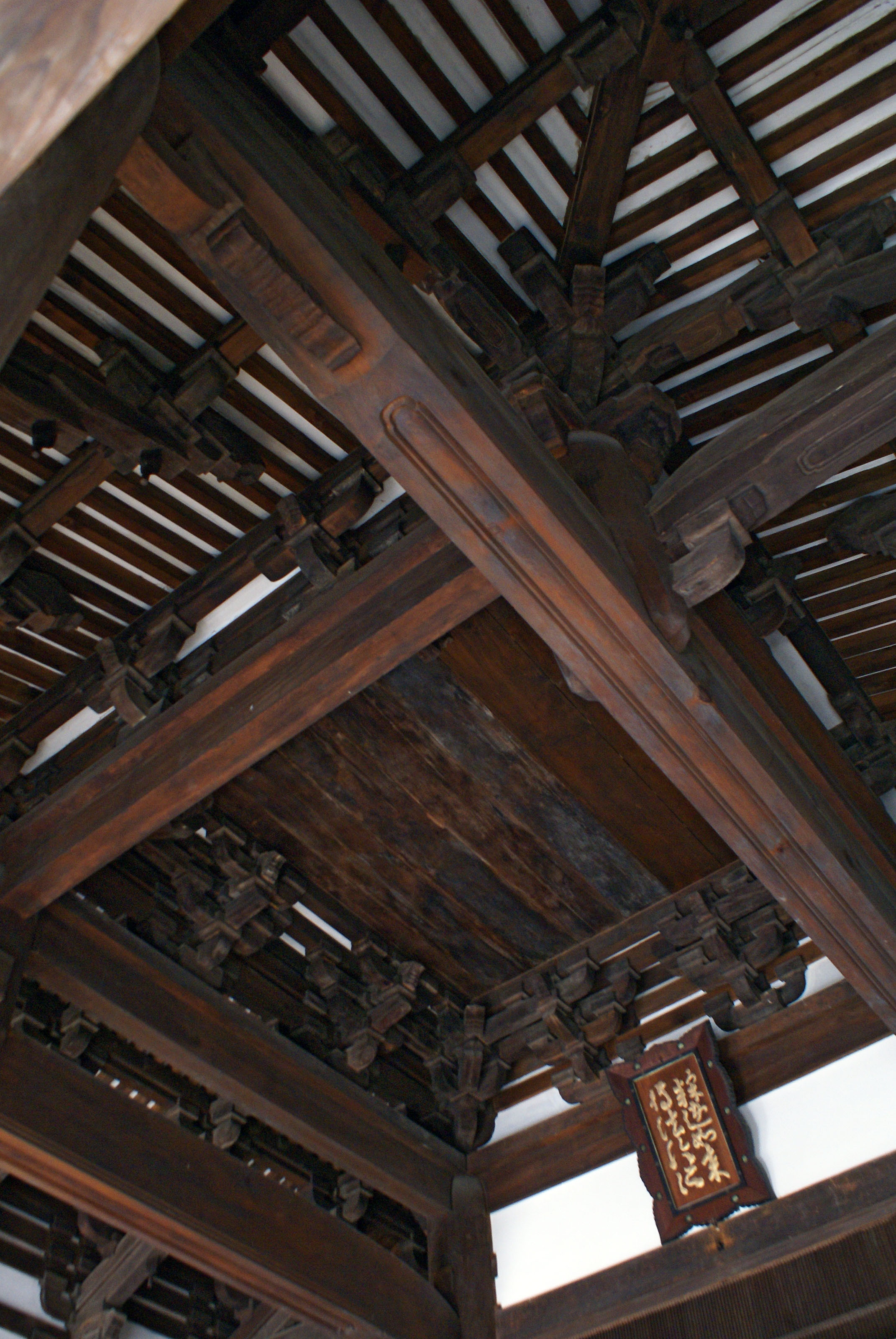 Zenpukuin Shakado (Japan's National Treasure) in Kainan, Wakayama prefecture, Japan It was built in 1215.